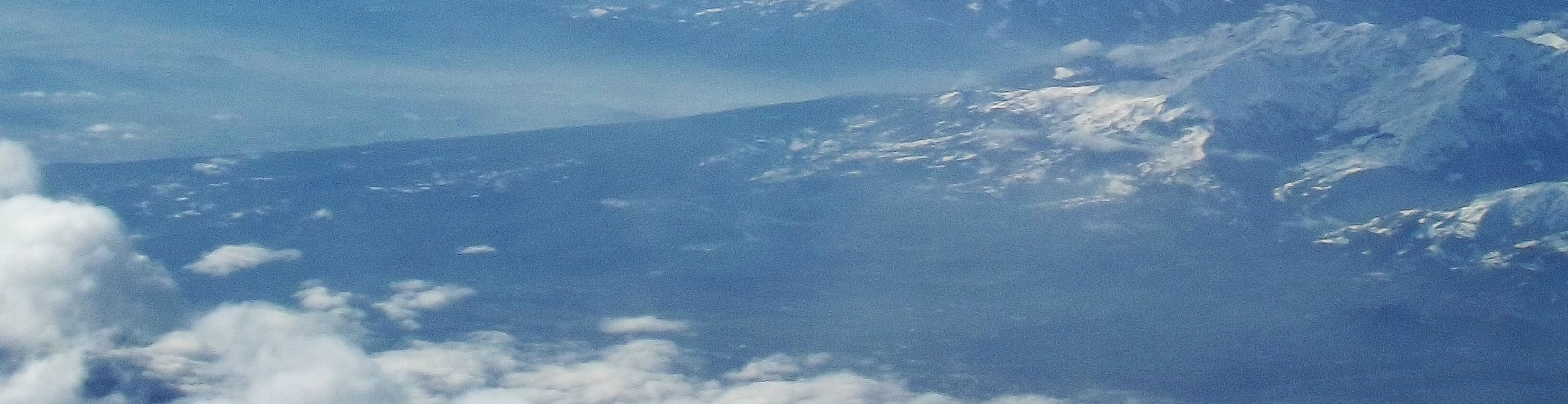 Air view of Serra di Ivrea (Piedmont, Italy)